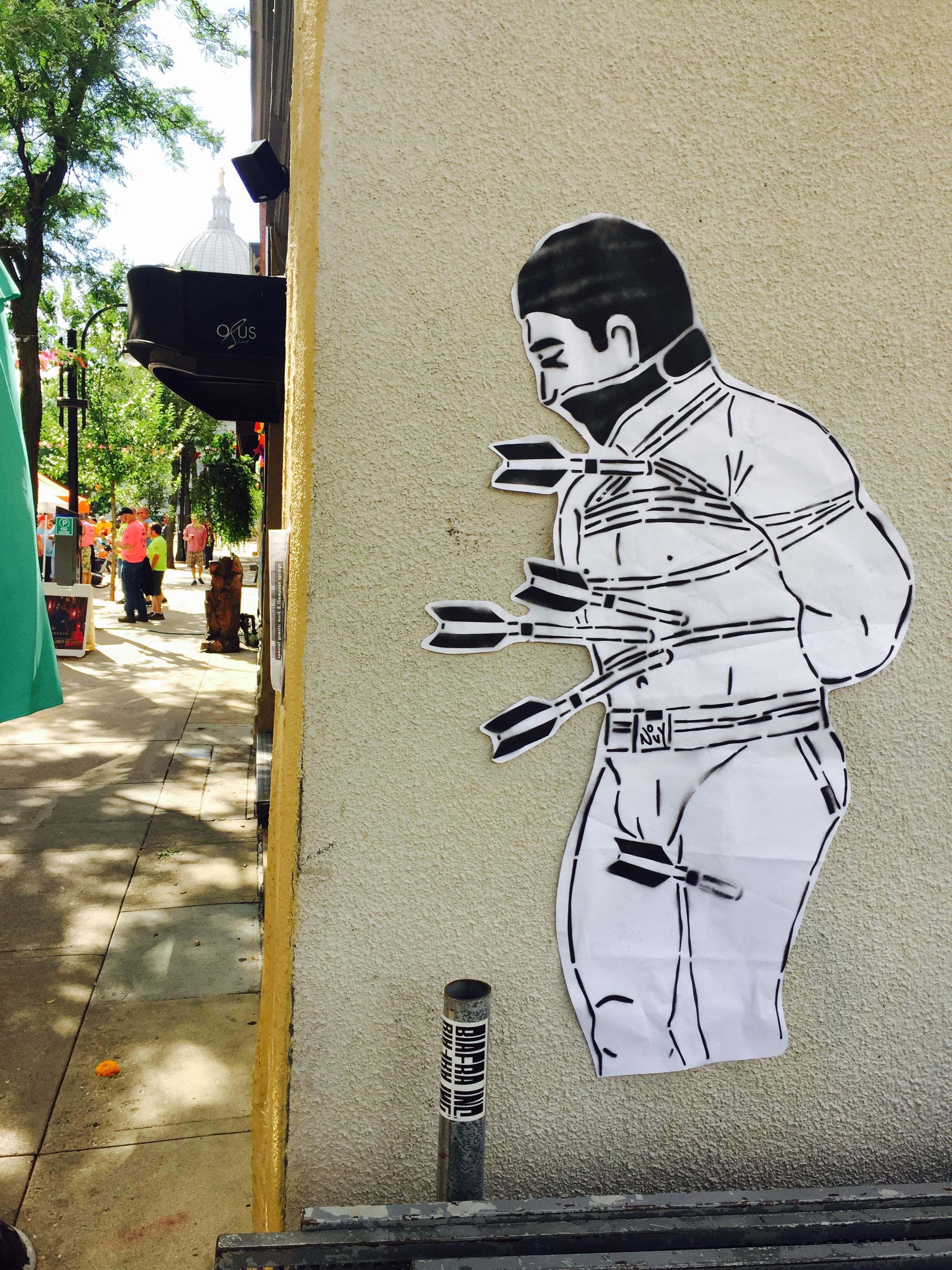 My modern day version of the iconic St. Sebastian. St. Sebastian is the patron saint of ailments and has been used by the gay community as the saint to pray to to heal AIDS.